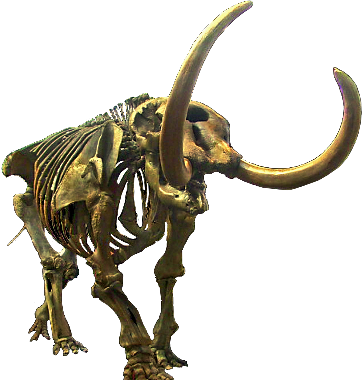 Mammut americanum cast skeleton produced and distributed by Triebold Paleontology Incorporated